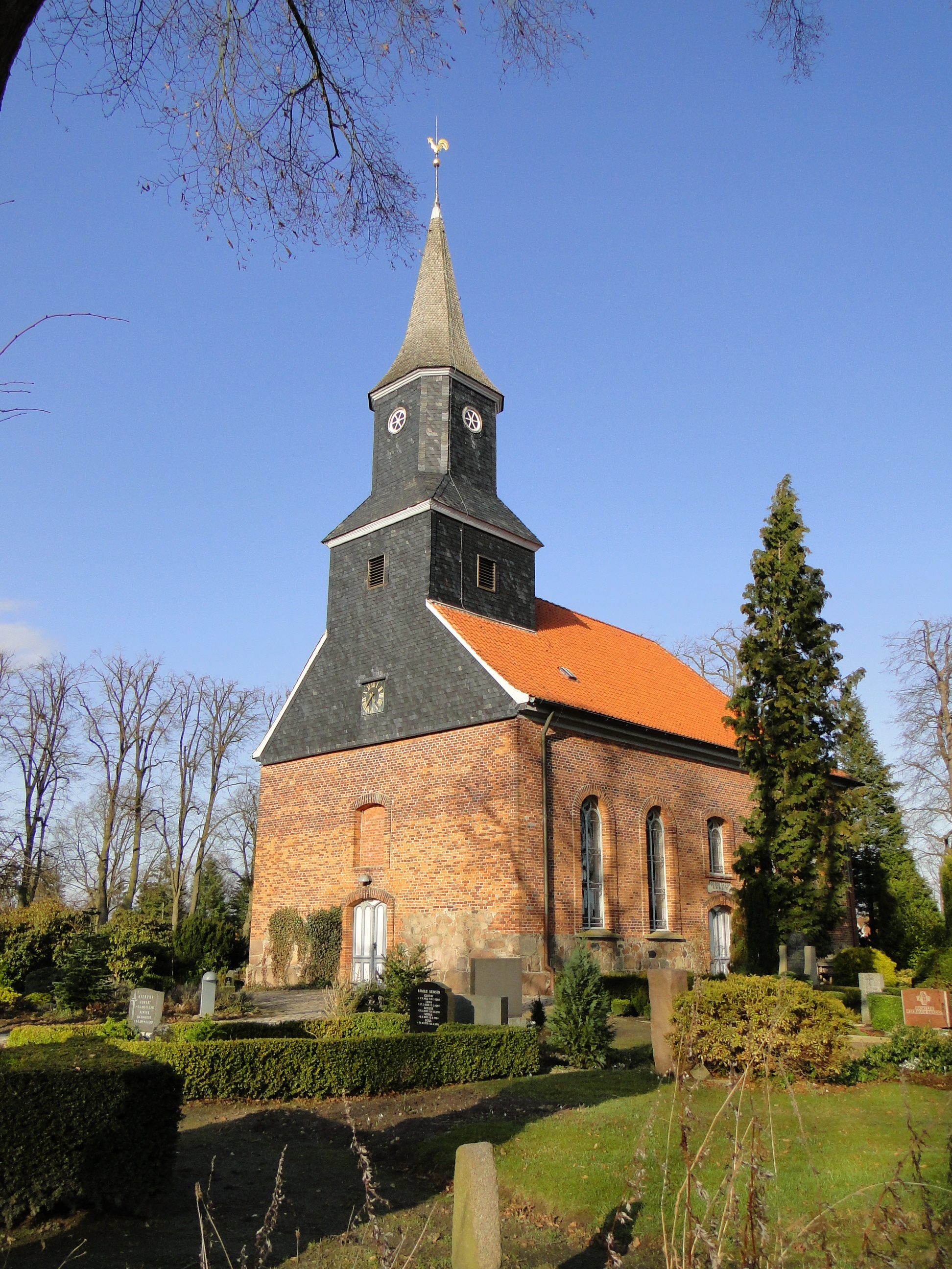 Church in Brunstorf, disctrict Herzogtum Lauenburg, Schleswig-Holstein, Germany